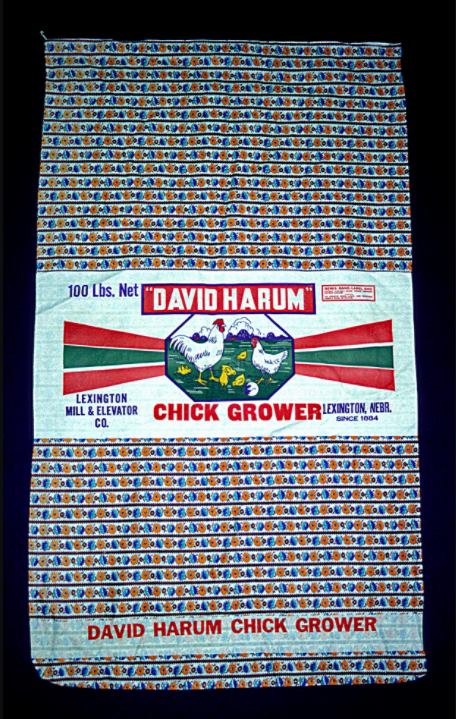 Empty feed sack by Bemis company